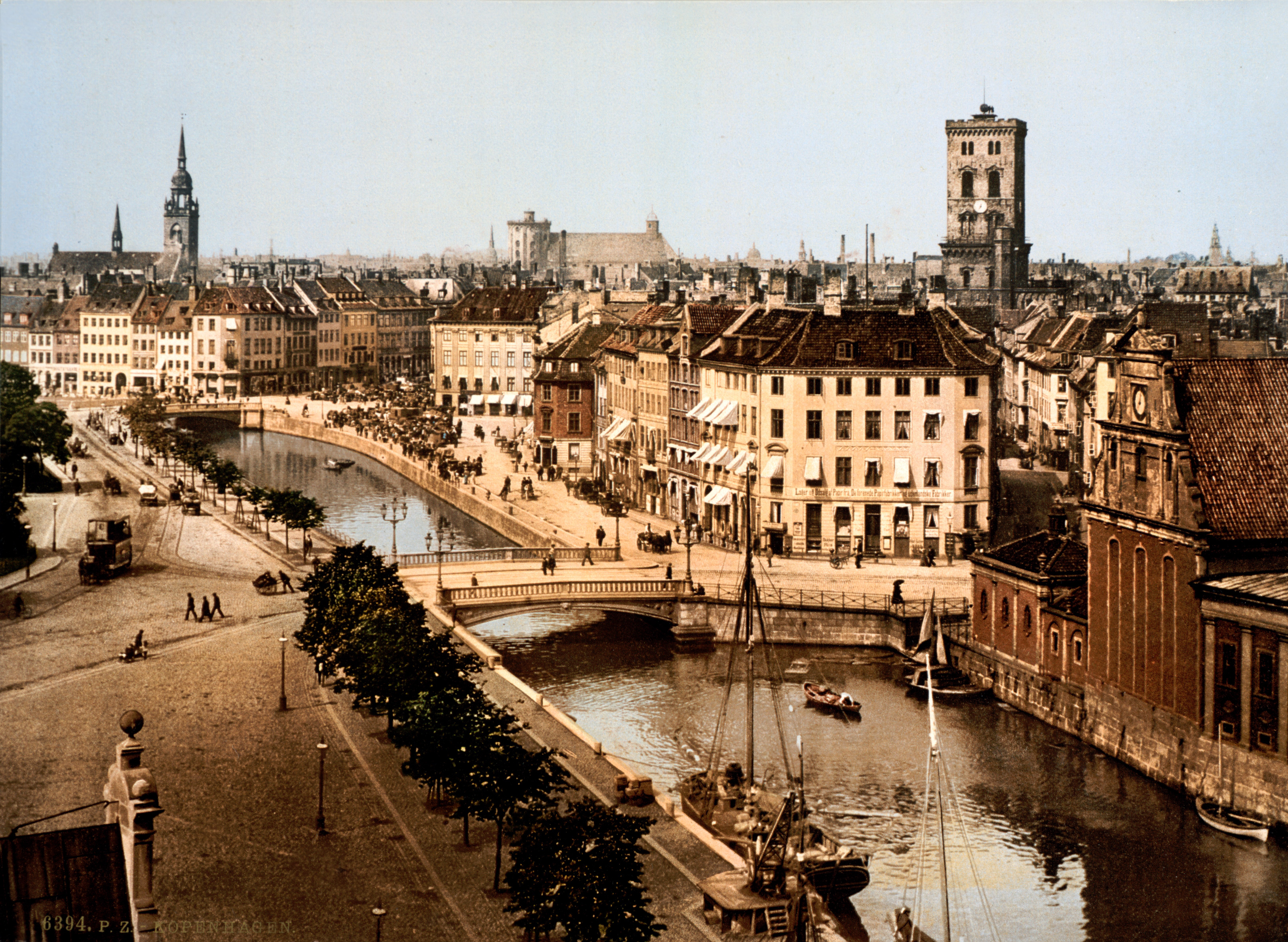 [General view, Copenhagen, Denmark] 1 photomechanical print : photochrom, color. Notes: Title from the Detroit Publishing Co., catalogue J, foreign section. Detroit, Mich. : Detroit Publishing Company, c1905. Print no. 6394. Forms part of: Views of architecture and other sites in Copenhagen, Denmark in the Photochrom print collection. Subjects: Denmark--Copenhagen. Format: Photochrom prints--Color--1890-1900. Repository: Library of Congress, Prints and Photographs Division, Washington, D.C. 20540 USA, Part Of: Views of architecture and other sites in Copenhagen, Denmark (DLC) 2001697980 More information about the Photochrom Print Collection is available at Persistent URL: Call Number: LOT 13421, no. 001 [item]